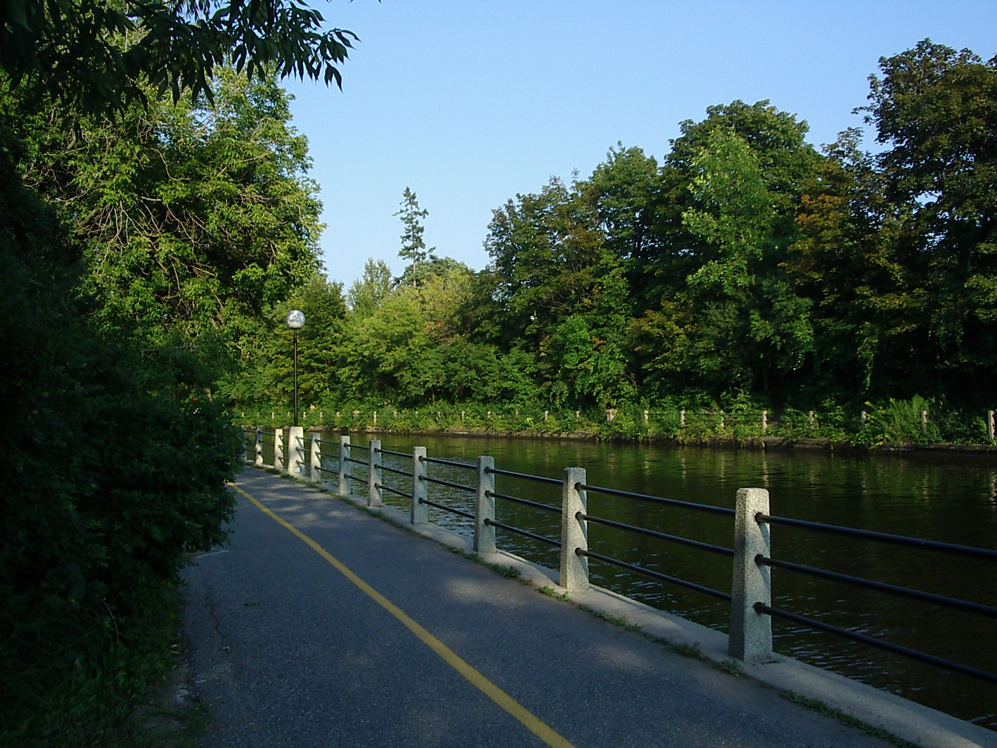 Rideau Canal in Ottawa.